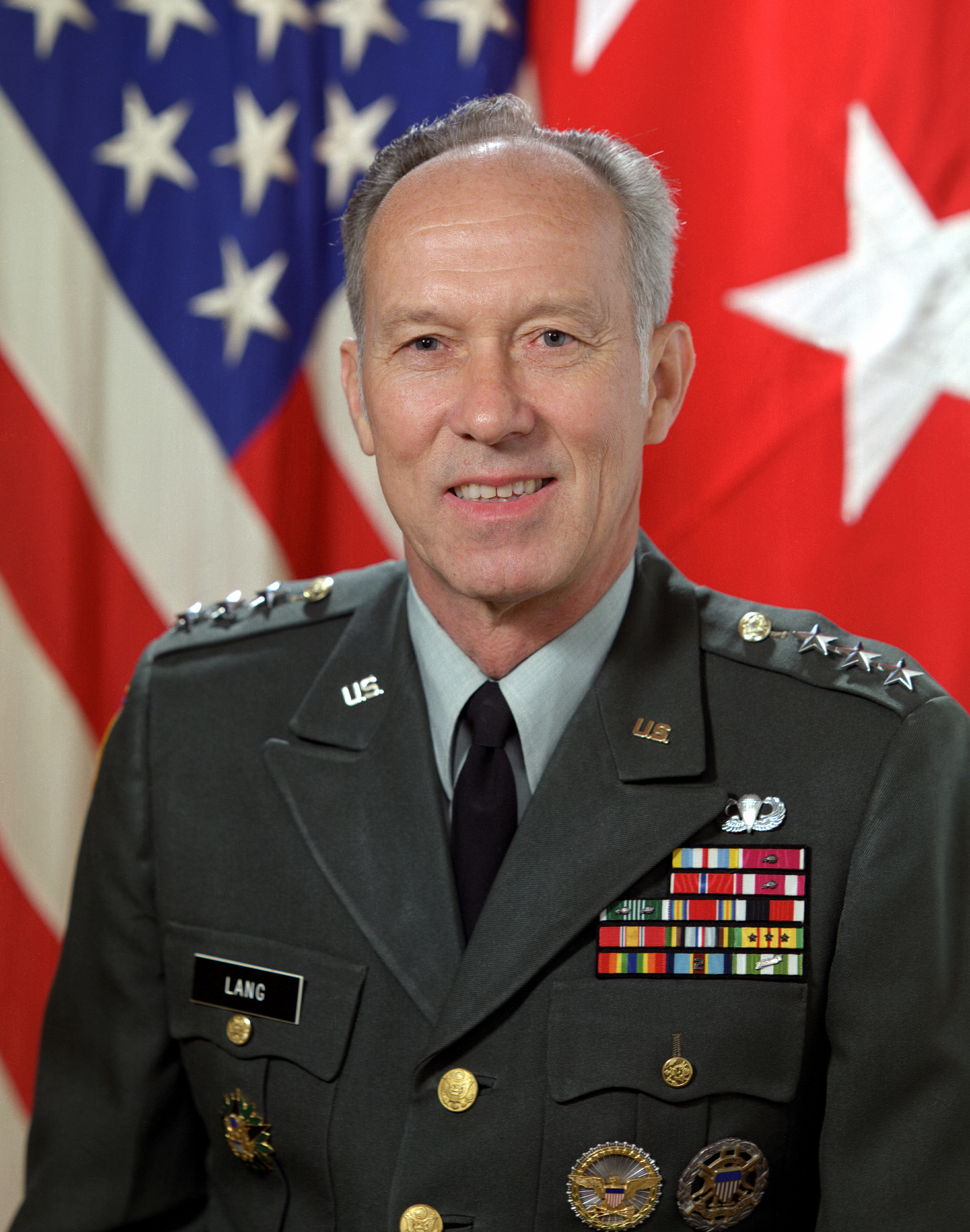 LGEN V.O. Lang, USA